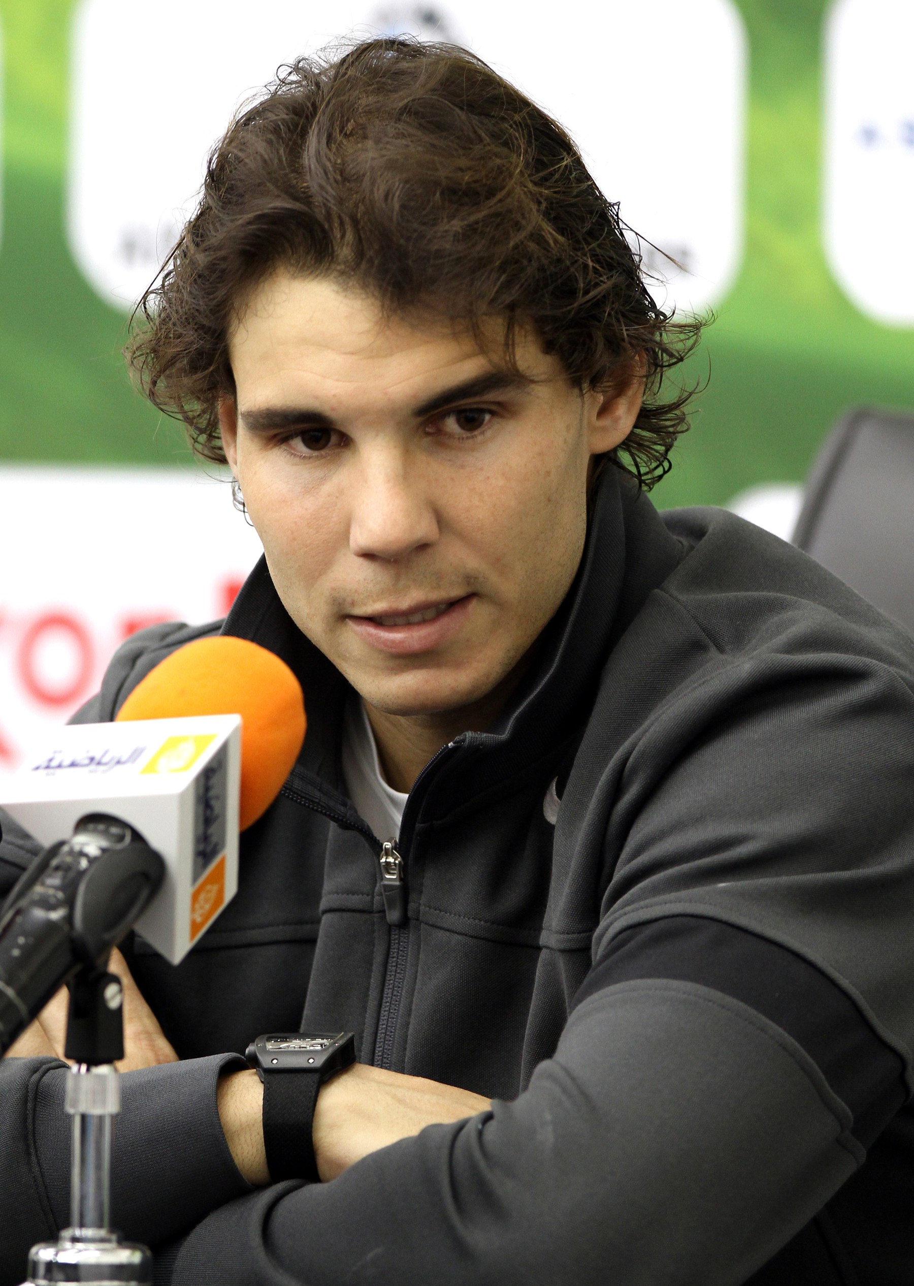 Spaniard tennis icon Rafael Nadal gestures during a Press conference during the Qatar Exxonmobil Open tennis tournament in Doha.